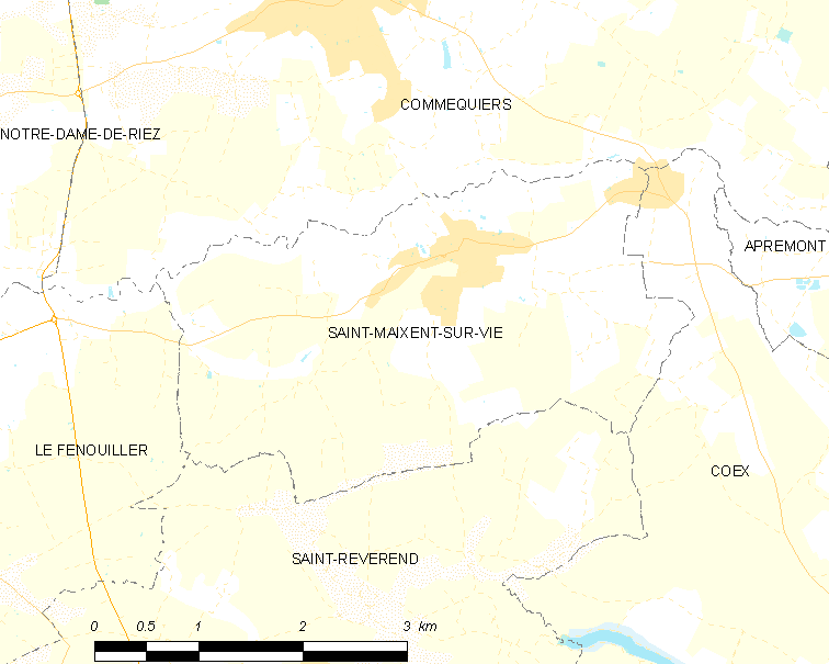 Map of French municipality Saint-Maixent-sur-Vie